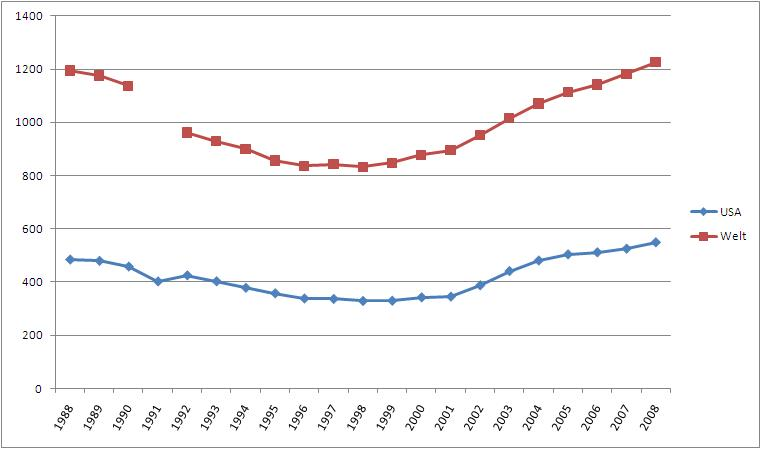 Military Expenditure: U.S. and global, 1988-2008 (in billion, 2005 US-$). (Source of original data: Stockholm International Peace Research Institute)